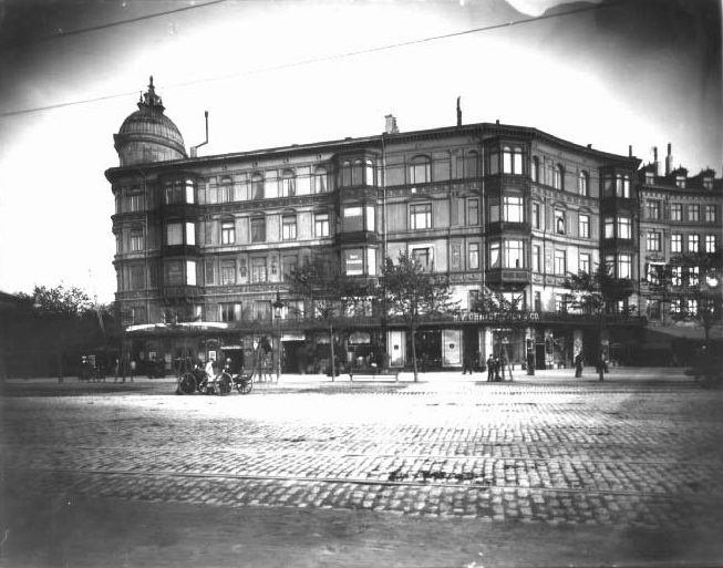 Panoptikonbygningen, originally an entertainment venue (panopticon), designed by Henrik Hagemann. Burnt 1950 and demolished.